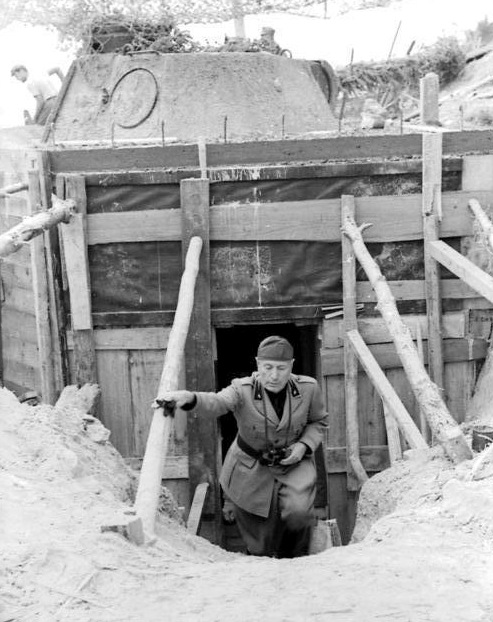 Information added by Wikimedia users.*